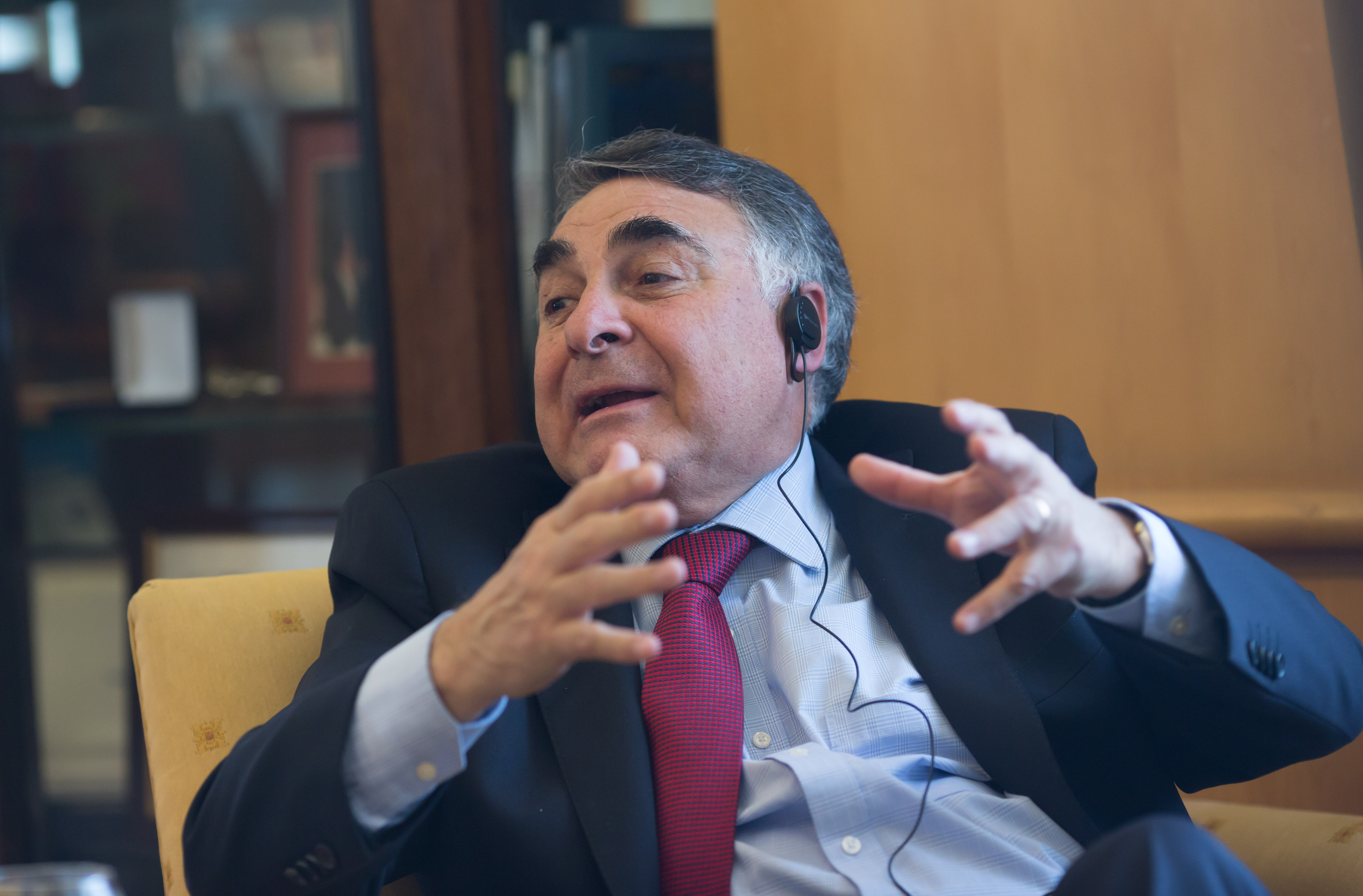 Meeting with Edgardo Riveros, Under-Secretary for Foreign Affairs